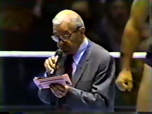 Famous Announcer Dave Zinkoff, still frame taken by ME